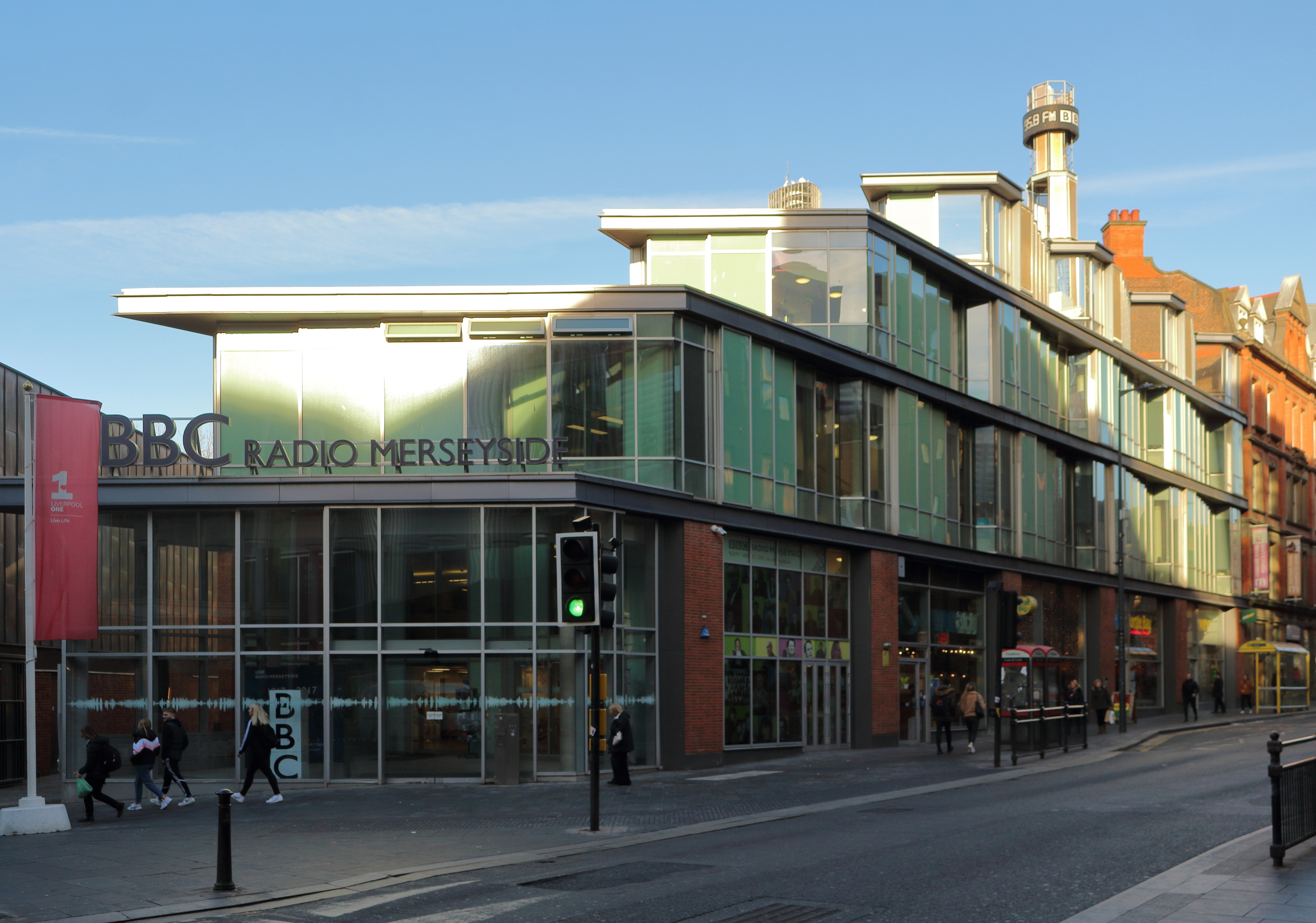 View across Hanover Street from Tesco Metro